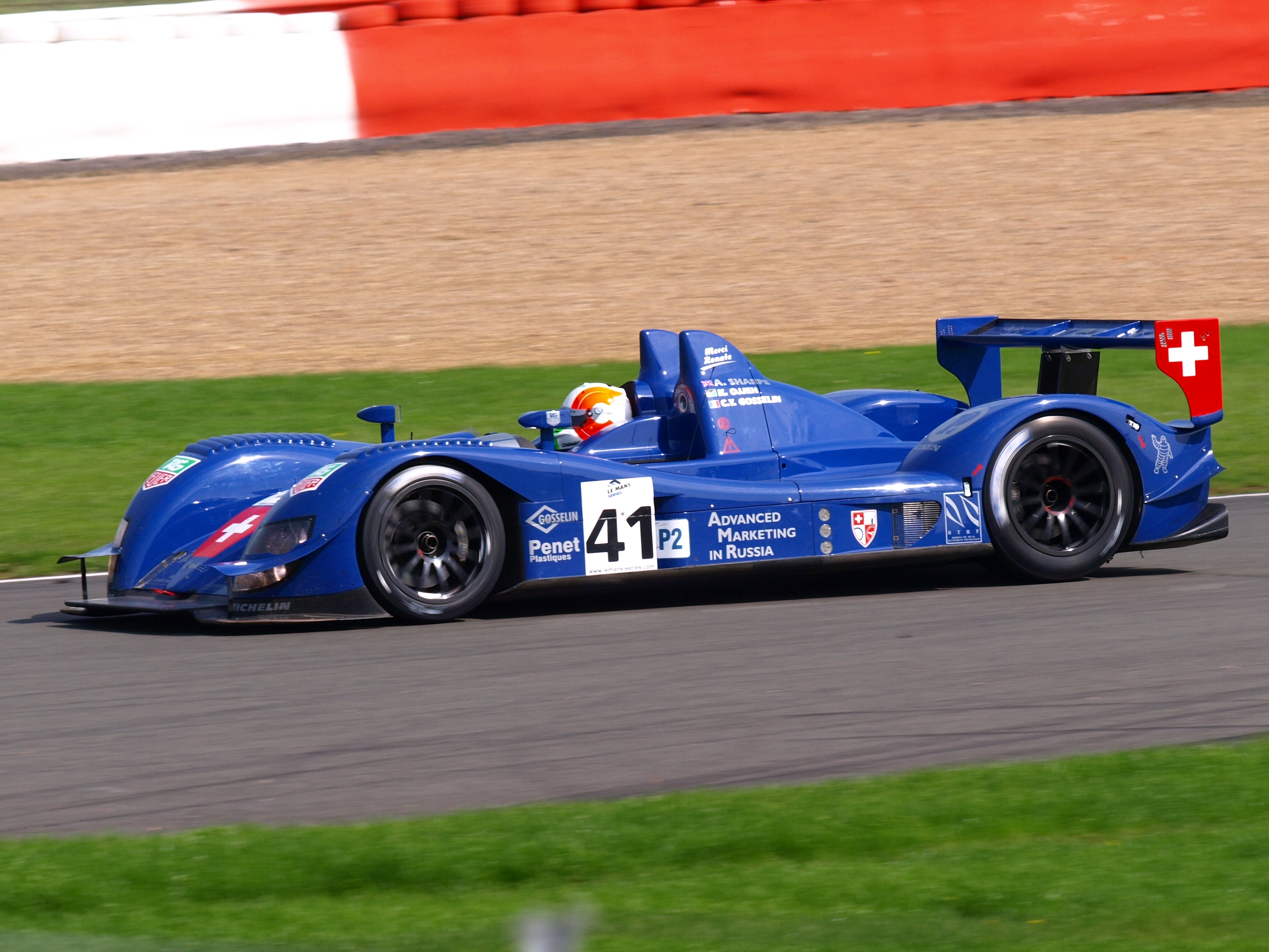 Trading Performance's Zytek 07S/2 at the 2008 1000km of Silverstone.